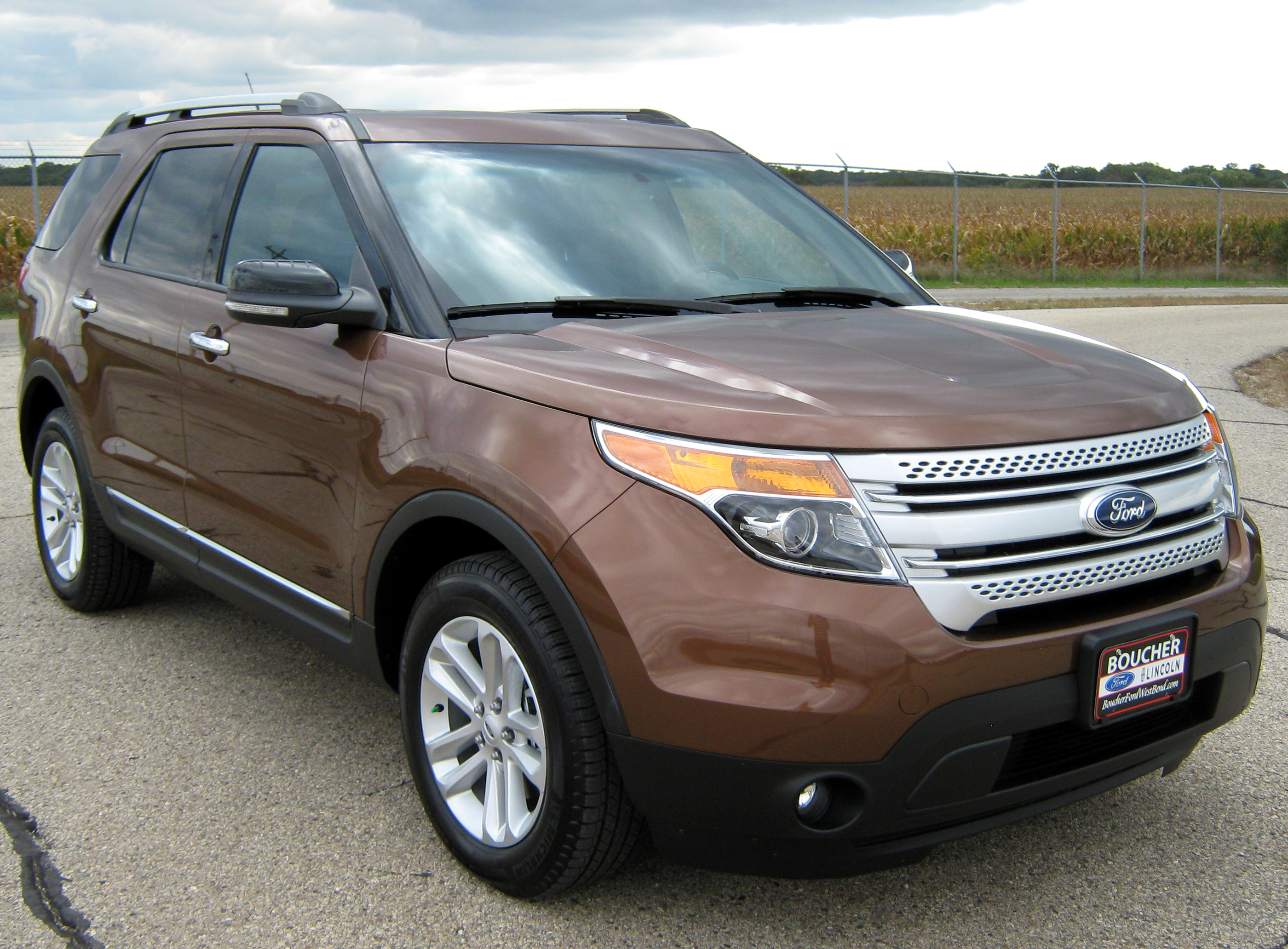 2012 Ford Explorer photographed in USA.